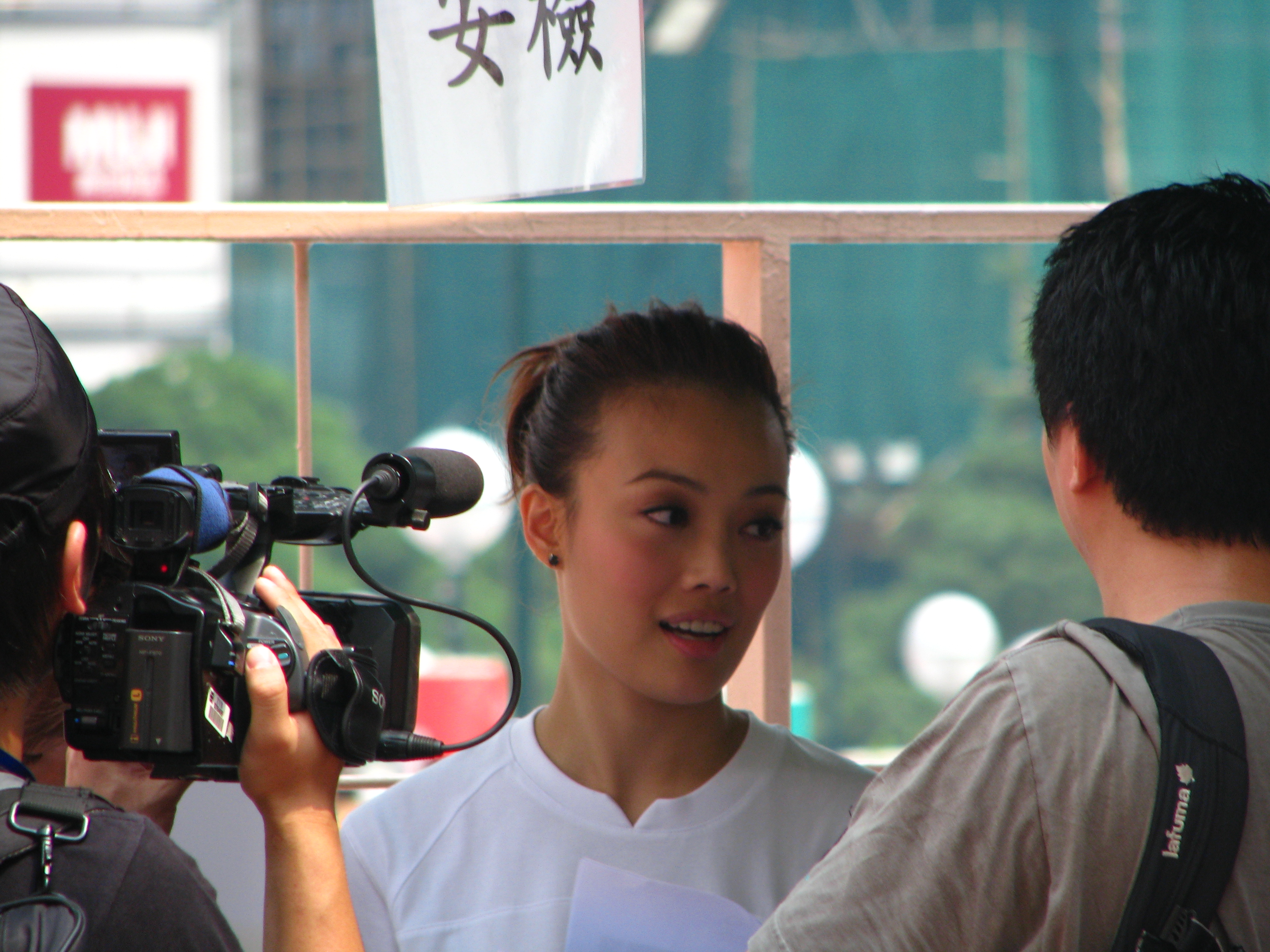 Hong Kong 2009 East Asian Games Torch Relay in Hong Kong.